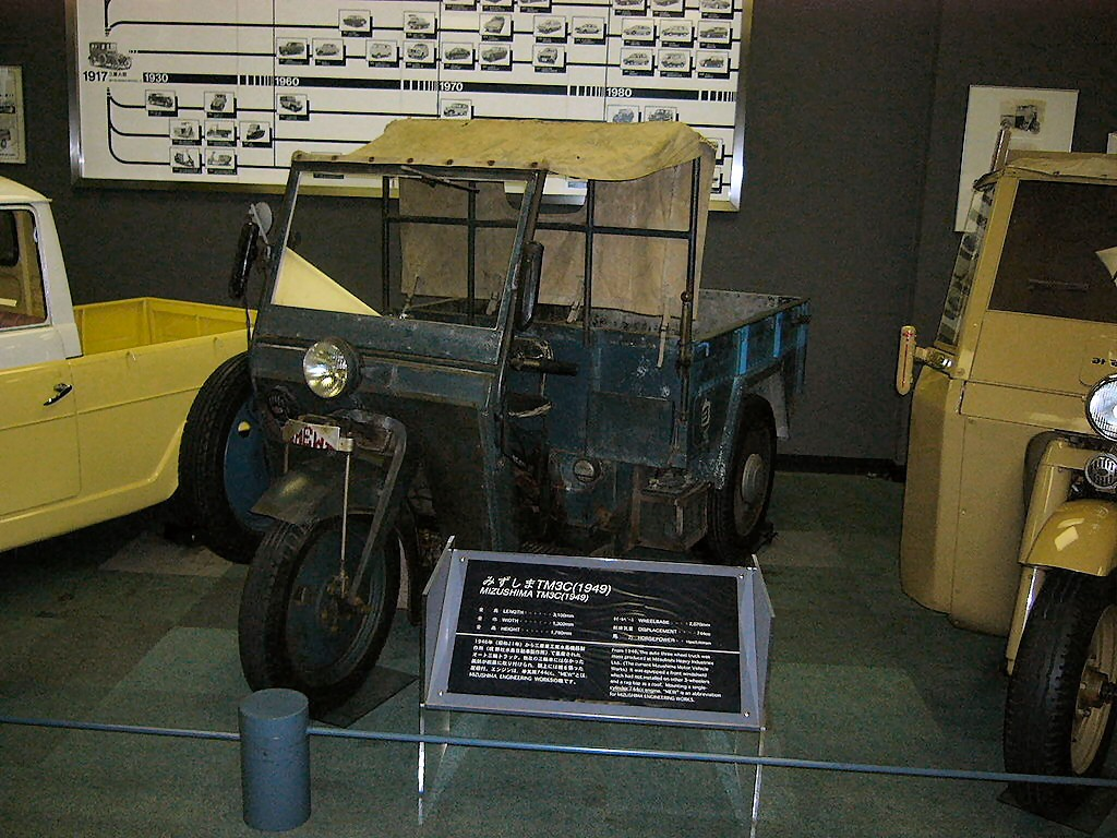 It takes a picture of Mitsubishi Mizushima TM3C(1949) of Aichi Prefecture Okazai City and a Mitsubishi Auto Gallery.